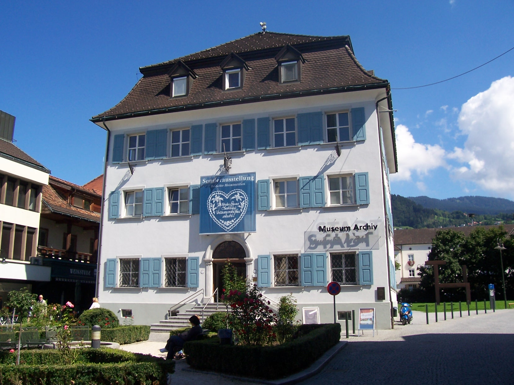 The city archives of Dornbirn.